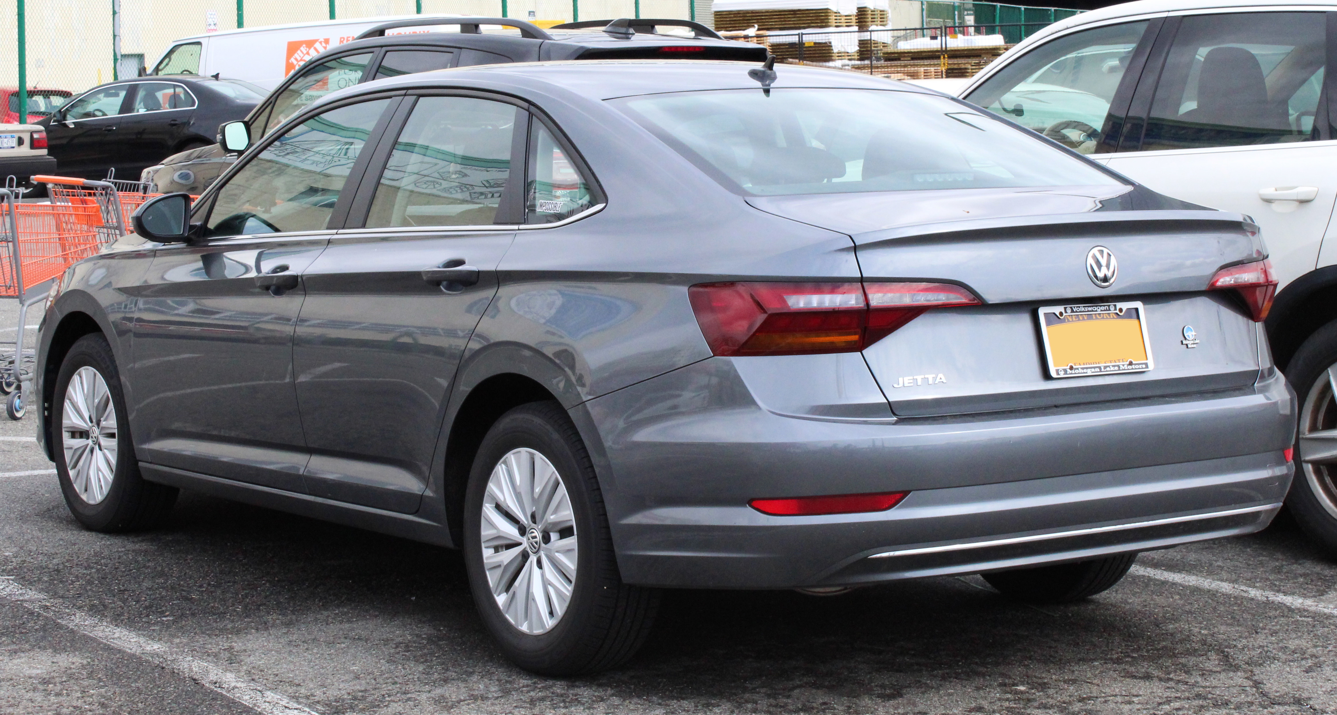 A 2019 Volkswagen Jetta photographed in Flushing, Queens, New York, USA